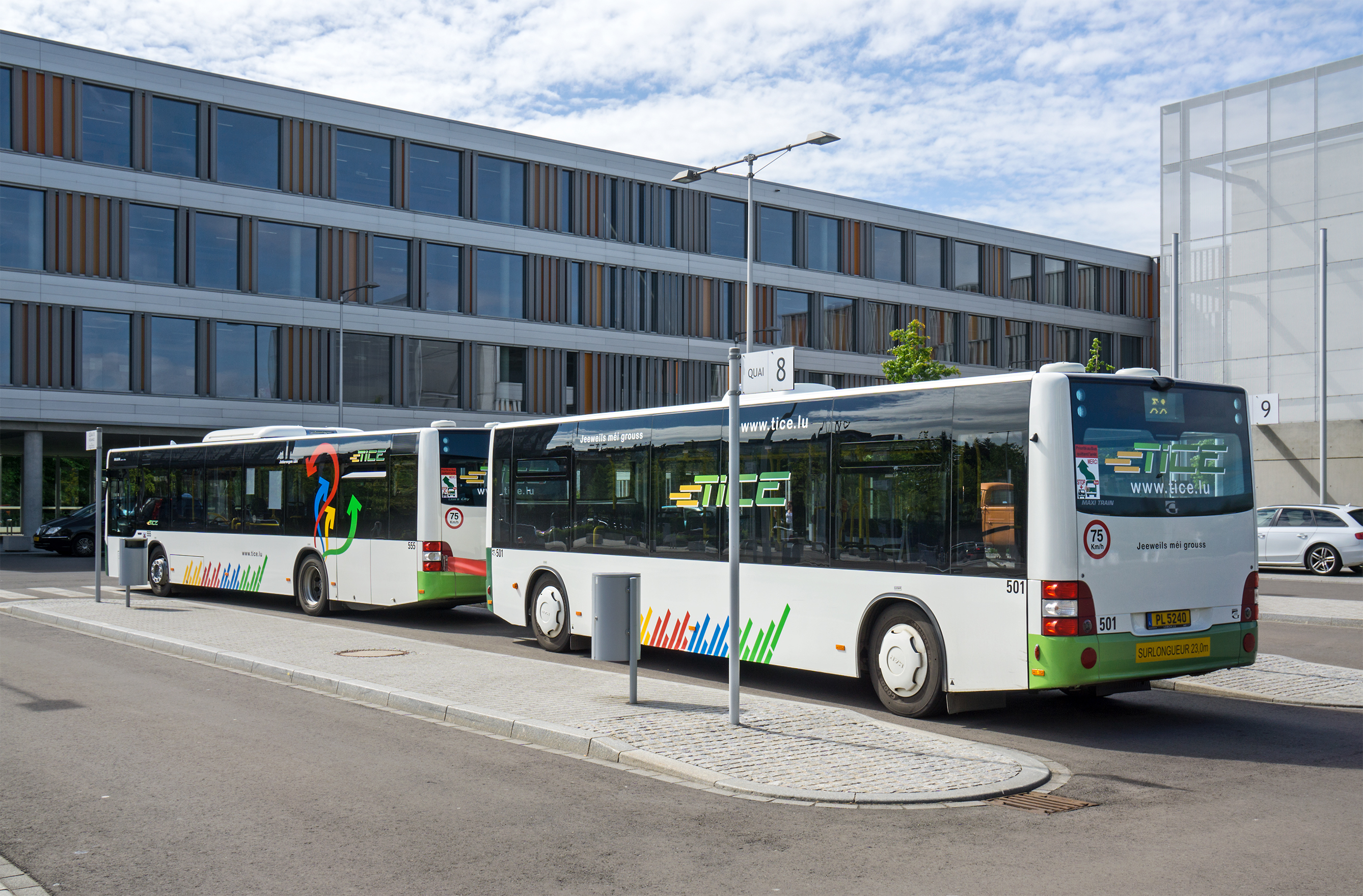 A TICE-bus with trailer at the Lycée technique de Lallange